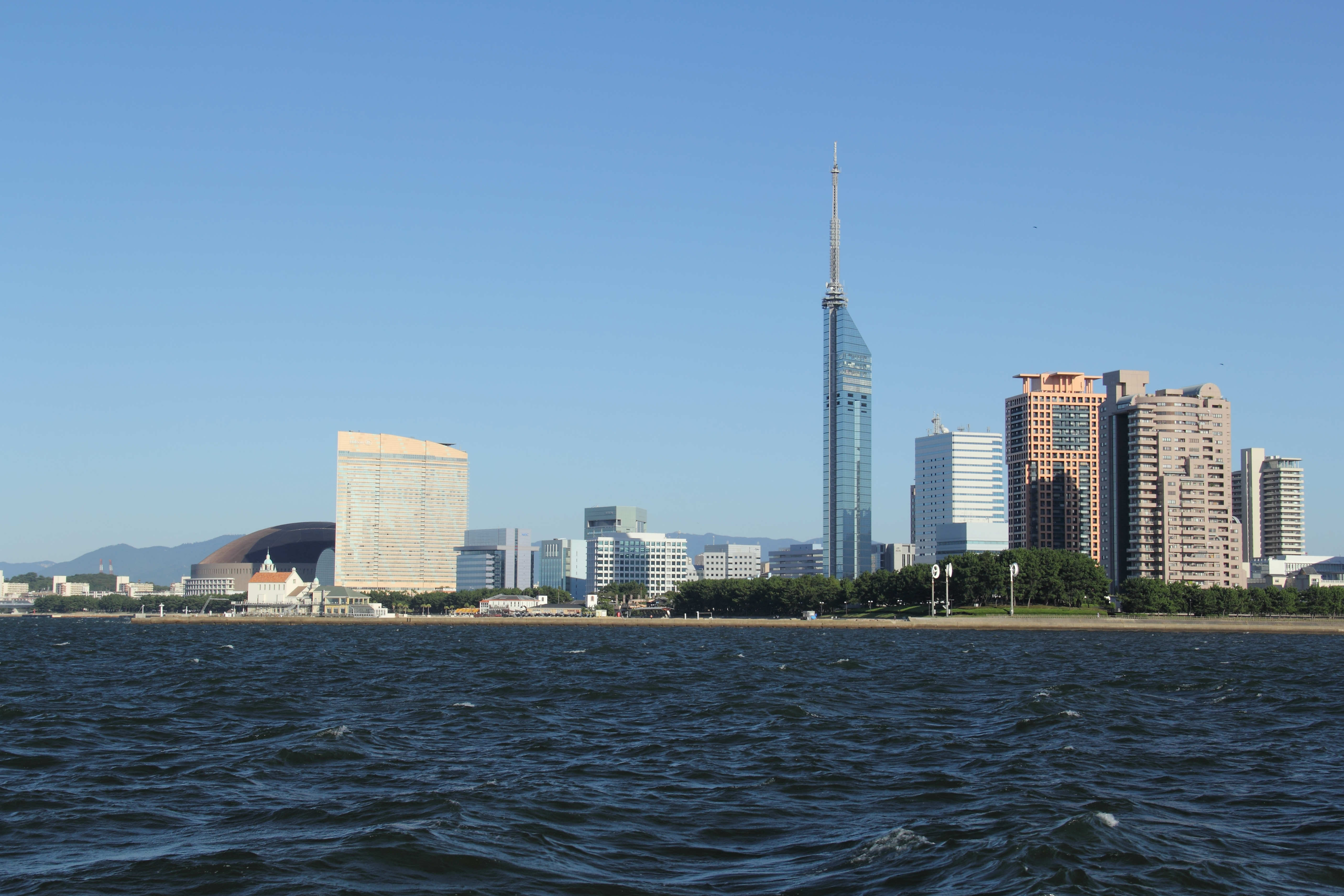 Seaside-momochi (from Atagohama) Canon EOS 60D